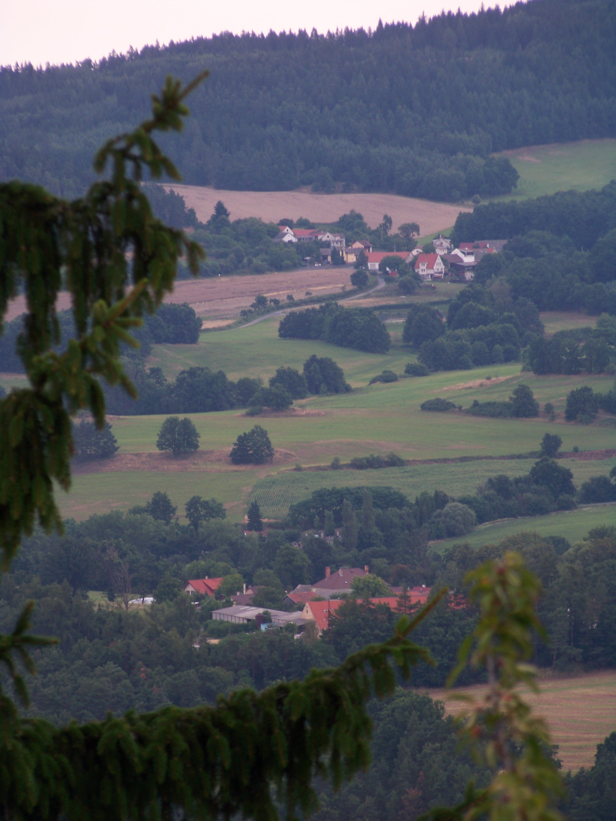 Jesenice-Doublovičky a Hulín, Příbram District, Central Bohemian Region, the Czech Republic. A view from ruin of Zvěřinec Castle. - Google Maps - Google Earth